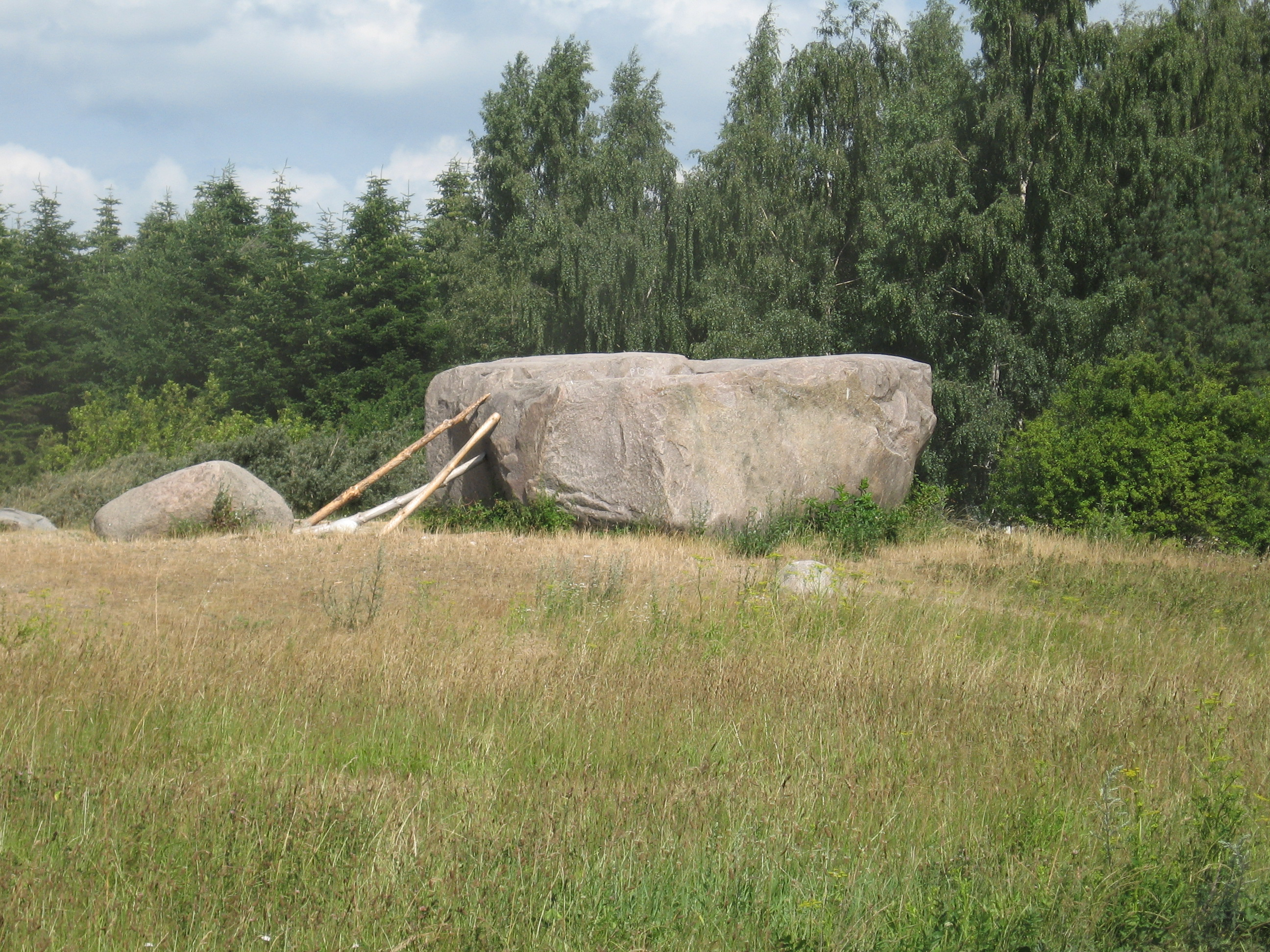 The Hvissinge Rock (Danish: Hvissingestenen) – the largest rock on the island of Zealand, Denmark.